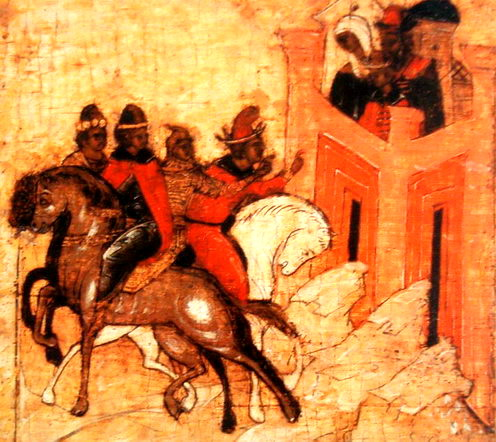 Prince Fyodor falls to return to Yaroslavl. Margin image of the icon.